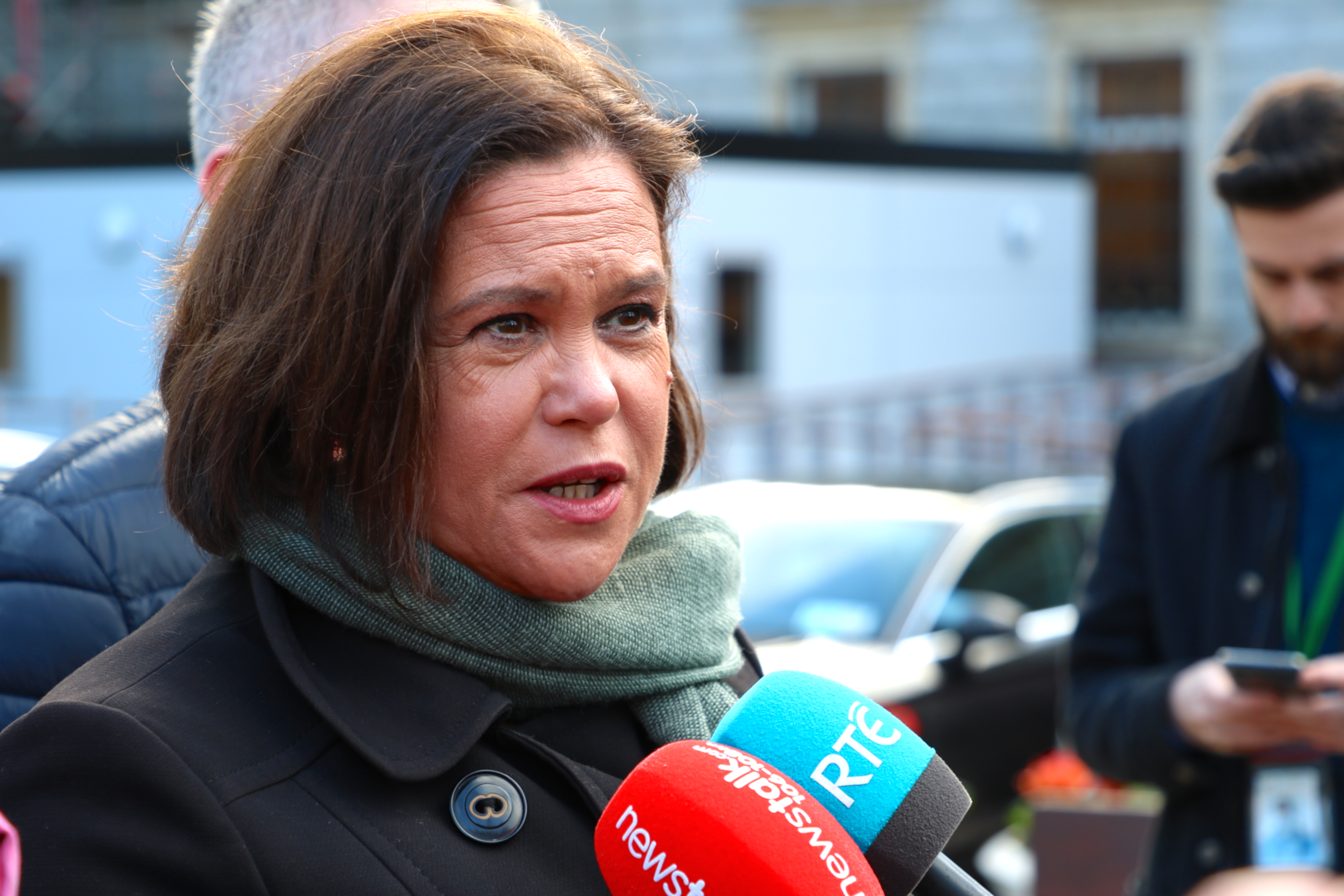 Mary Lou McDonald TD